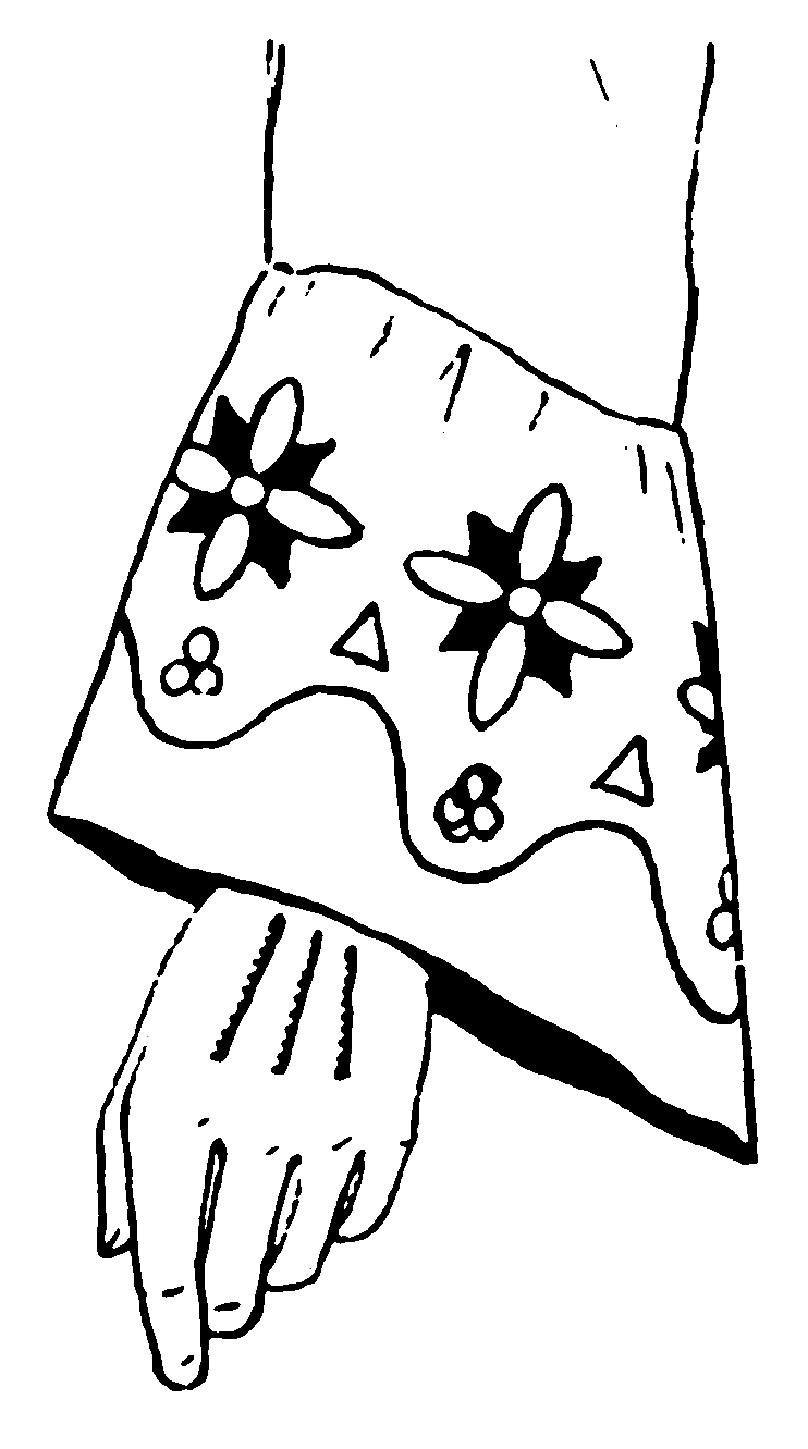 Line art drawing of appliqué on a sleeve